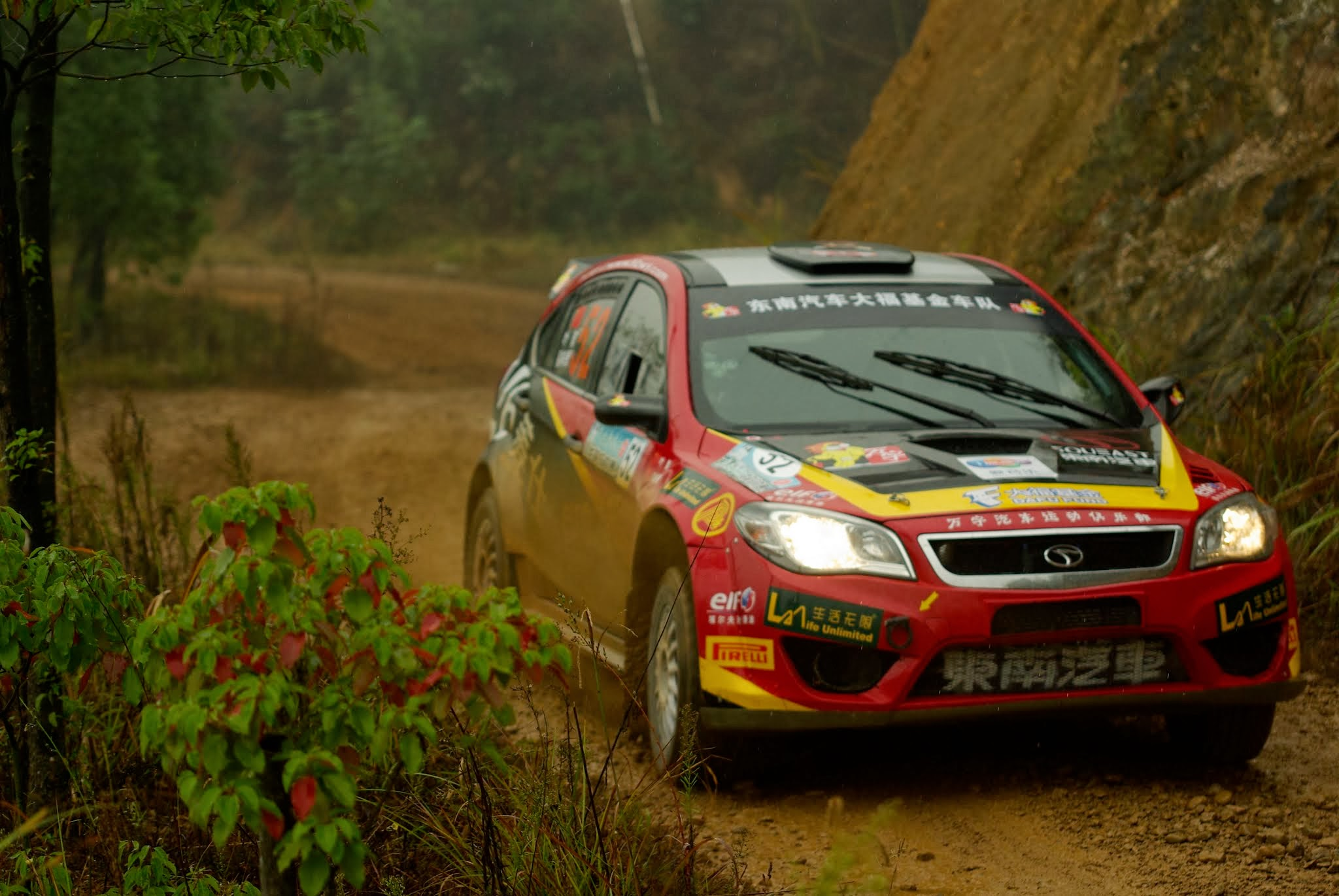 _IGP9309.JPG Soueast V6 hatchback as a racing car, APRC China Rally 2013 SS8&11